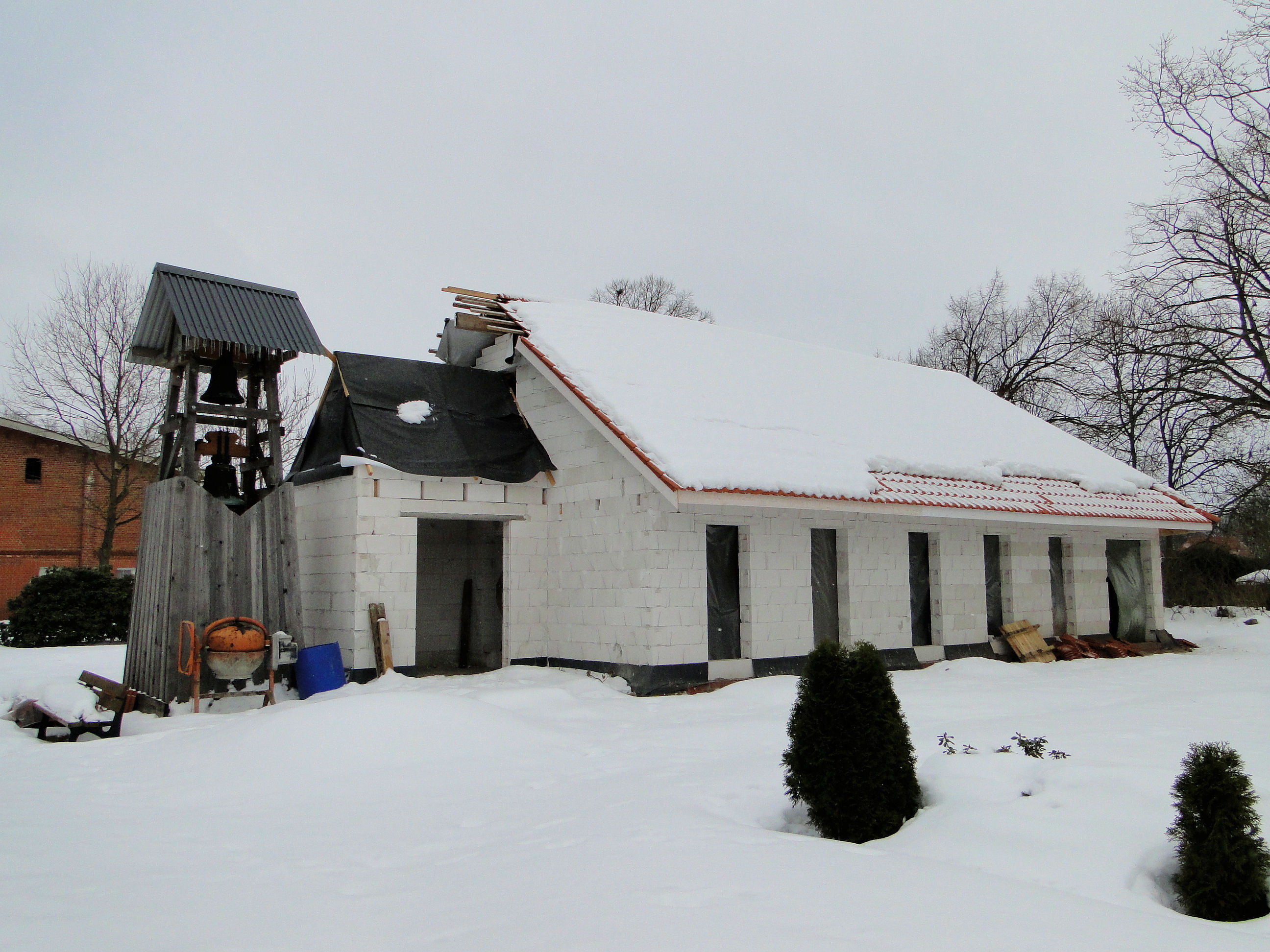 Chapel in construction in Zweedorf, disctrict Ludwigslust, Mecklenburg-Vorpommern, Germany